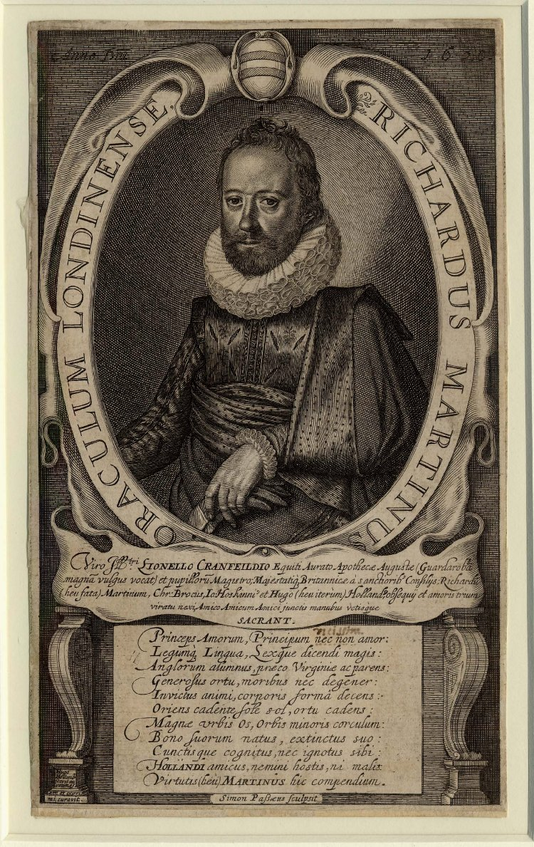 "Richardus Martinus Oraculum Londinense," portrait of Richard Martin, recorder of London, engraving, by the British engraver Simon de Passe. 195 mm x 117 mm. Courtesy of the British Museum, London.